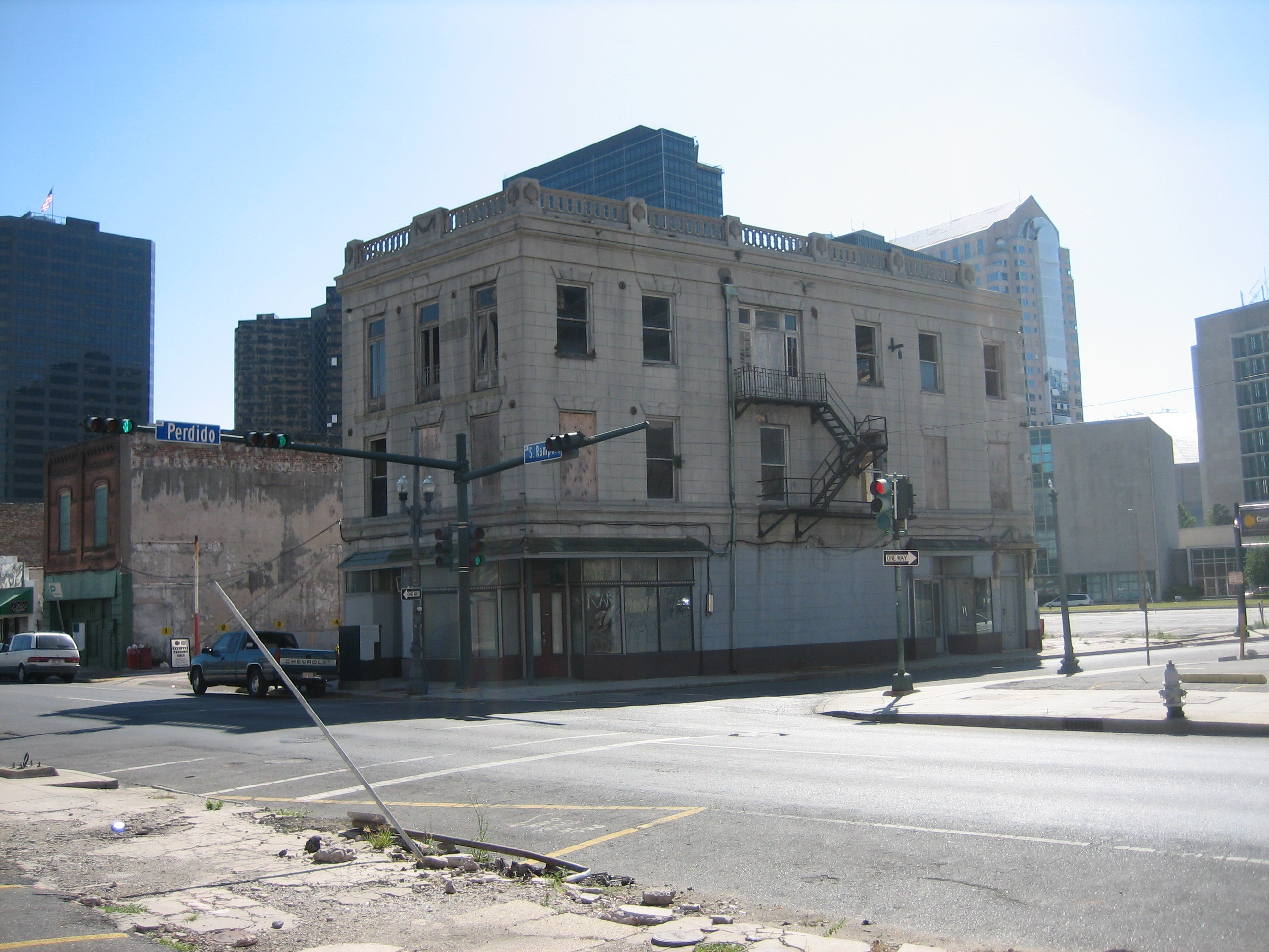 New Orleans: Rampart & Perdido Street. View of building formerly housing the Eagle Saloon downstairs, dance hall upstairs. Historic building where many early jazz greats played in the first quarter of the 20th century. To left is the building formerly housing the Iroquois Theater. Photo by Infrogmation, April 2006